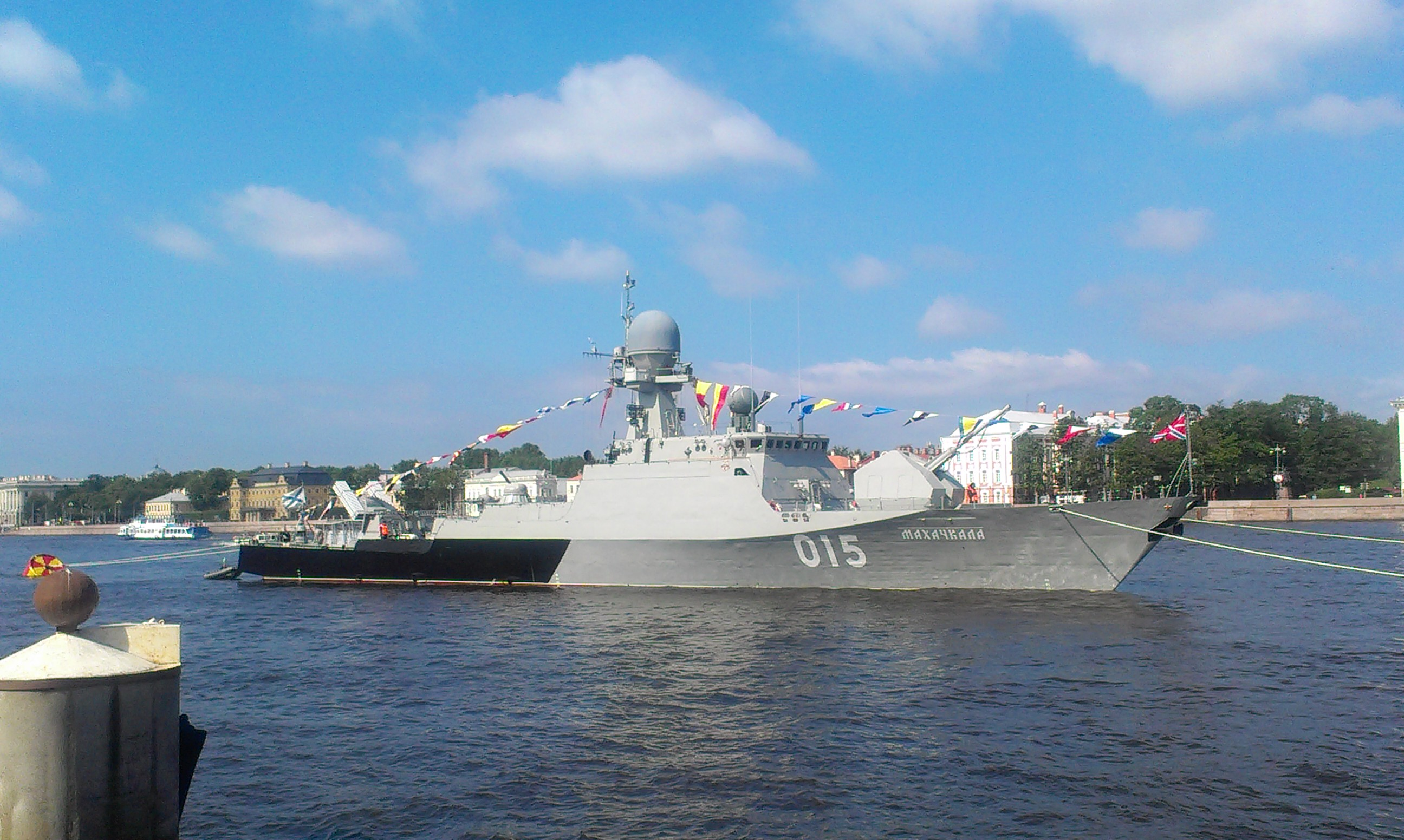 Russian Caspian corvette Maxachkala (Махачкала) in St. Petersburg on Neva River (26 July 2013).